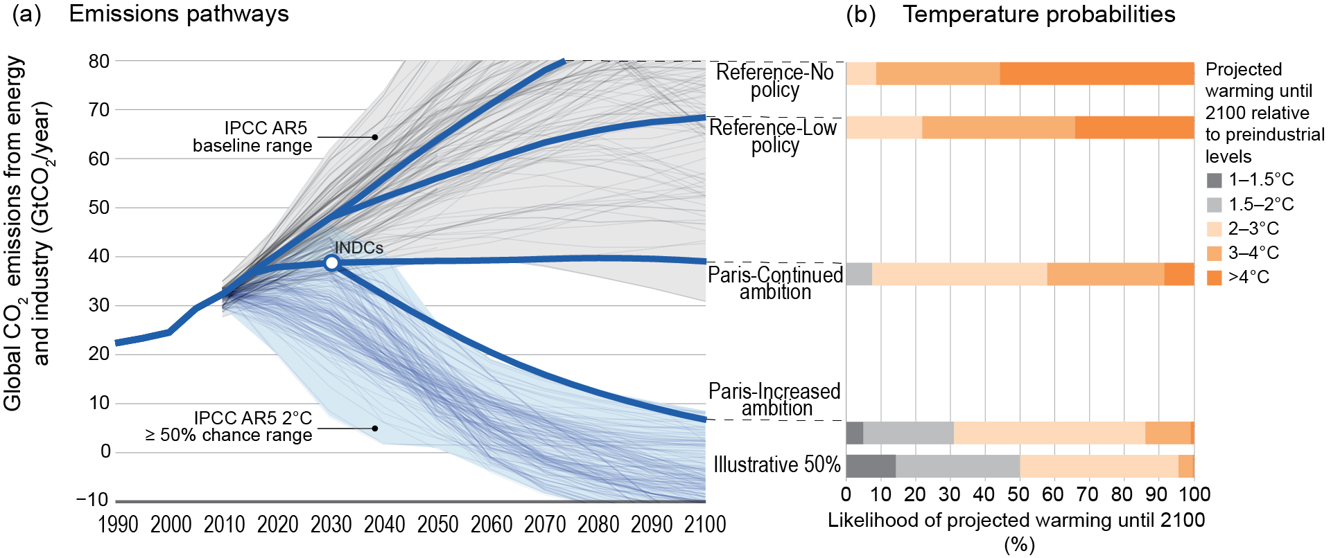 Global CO2 emissions and probabilistic temperature outcomes of government announcements associated with the lead up to the Paris climate conference. (a) Global CO2 emissions from energy and industry (includes CO2 emissions from all fossil fuel production and use and industrial processes such as cement manufacture that also produce CO2 as a byproduct) for emissions pathways following no policy, current policy, meeting the governments’ announcements with constant country decarbonization rates past 2030, and meeting the governments’ announcements with higher rates of decarbonization past 2030. INDCs refer to Intended Nationally Determined Contributions which is the term used for the governments’ announced actions in the lead up to Paris. (b) Likelihoods of different levels of increase in global mean surface temperature during the 21st century relative to preindustrial levels for the four scenarios. Although (a) shows only CO2 emissions from energy and industry, temperature outcomes are based on the full suite of GHG, aerosol, and short-lived species emissions across the full set of human activities and physical Earth systems.